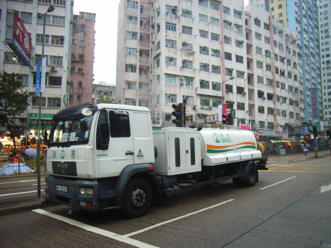 MAN LE 200 vehicle (front), Kin Tak House (behind on the center near right side) in Kwun Tong, Hong Kong.